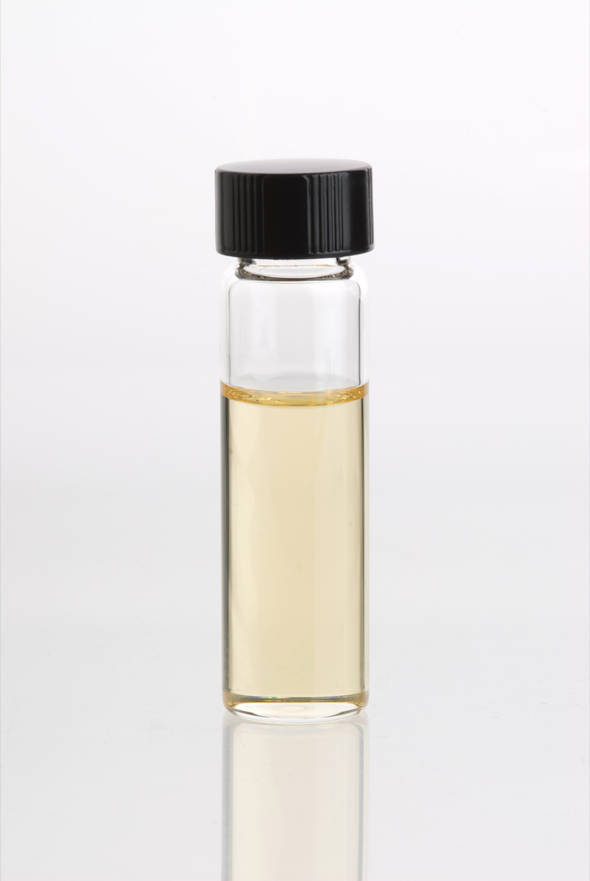 Glass vial containing Eucalyptus Citriodora Essential Oil